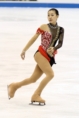 Kanako Murakami at the 2010 NHK Trophy.